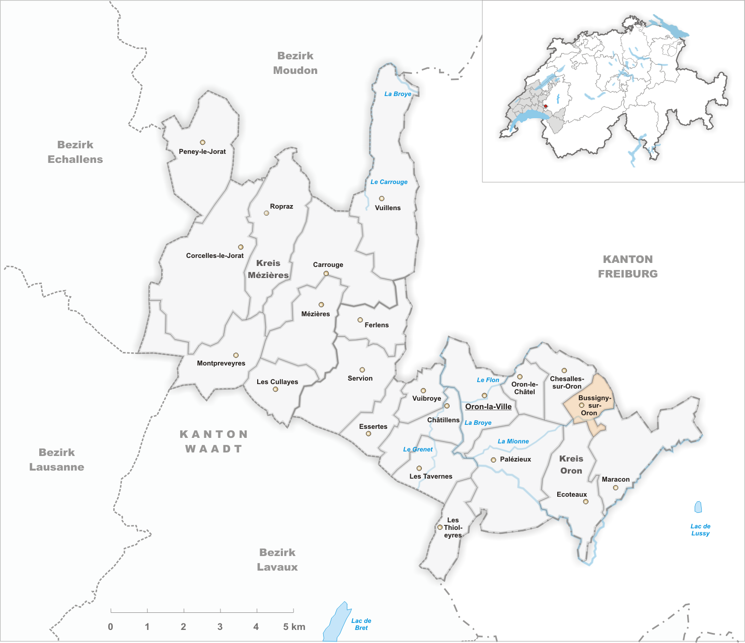 Municipality Bussigny-sur-Oron